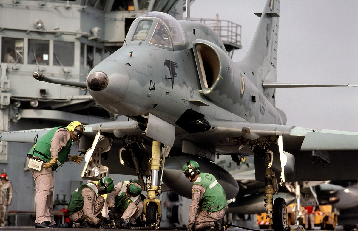 Solving a problem with the catapult.